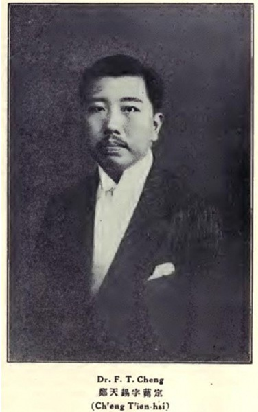 Zheng Tianxi (1884－1970)